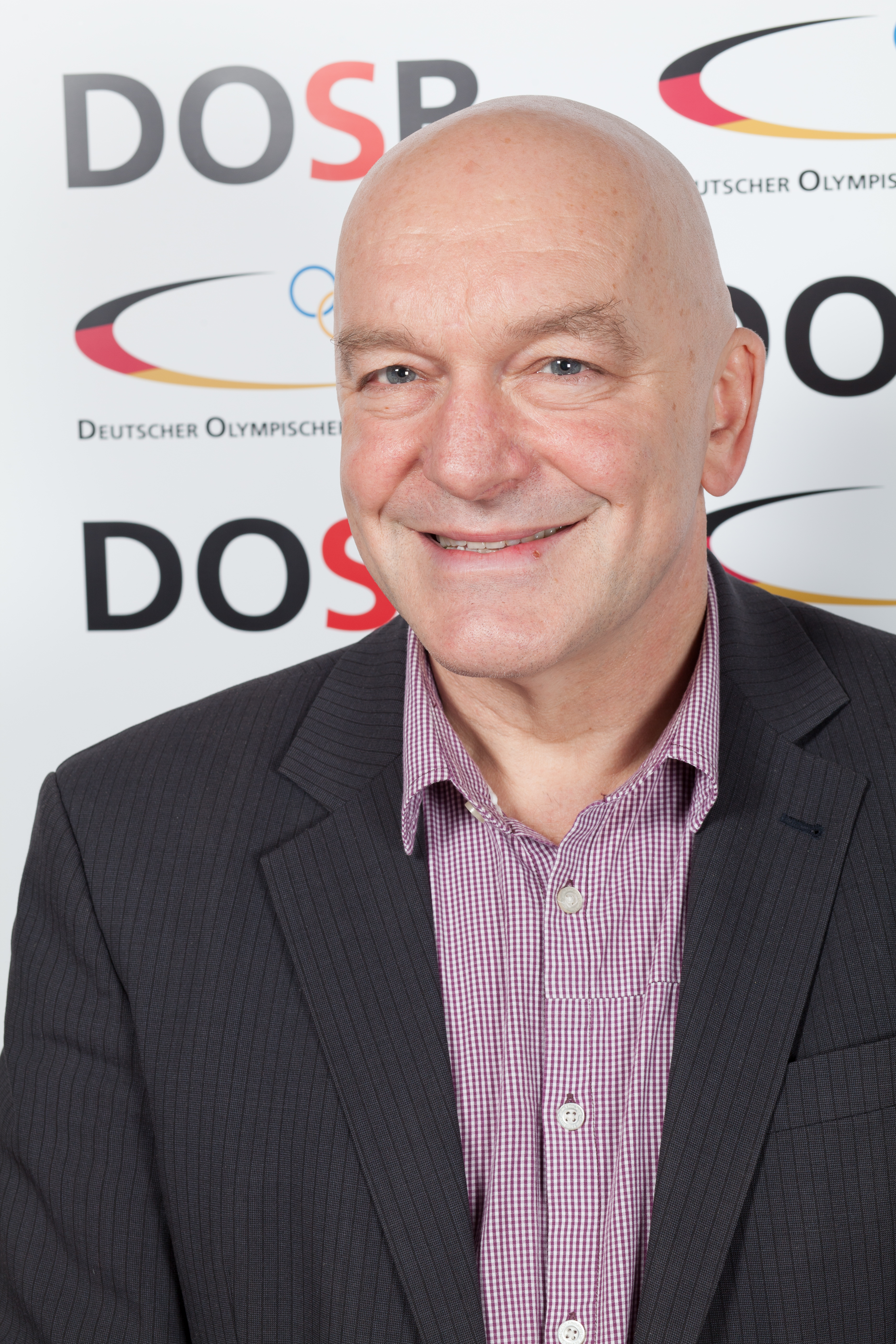 Bundestrainer-Konferenz des DOSBam 6. November 2012 in Leipzig Marcus Cyron Olaf Kosinsky Madonius Steschke Dieses Foto entstand aufgrund einer Zusammenarbeit mit dem DOSB. Personality rights warningAlthough this work is freely licensed or in the public domain, the person(s) shown may have rights that legally restrict certain re-uses unless those depicted consent to such uses. In these cases, a model release or other evidence of consent could protect you from infringement claims.